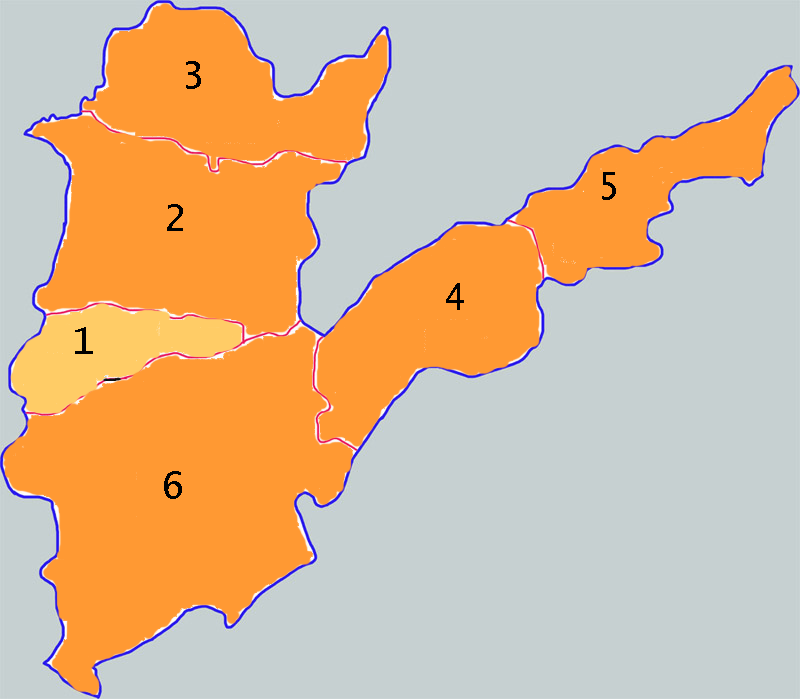 Municipalities of Puyang city, China